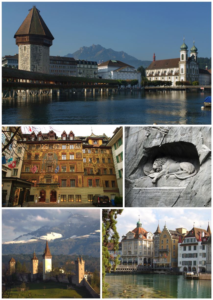 Montage of images of Lucerne for use on Wikipedia article